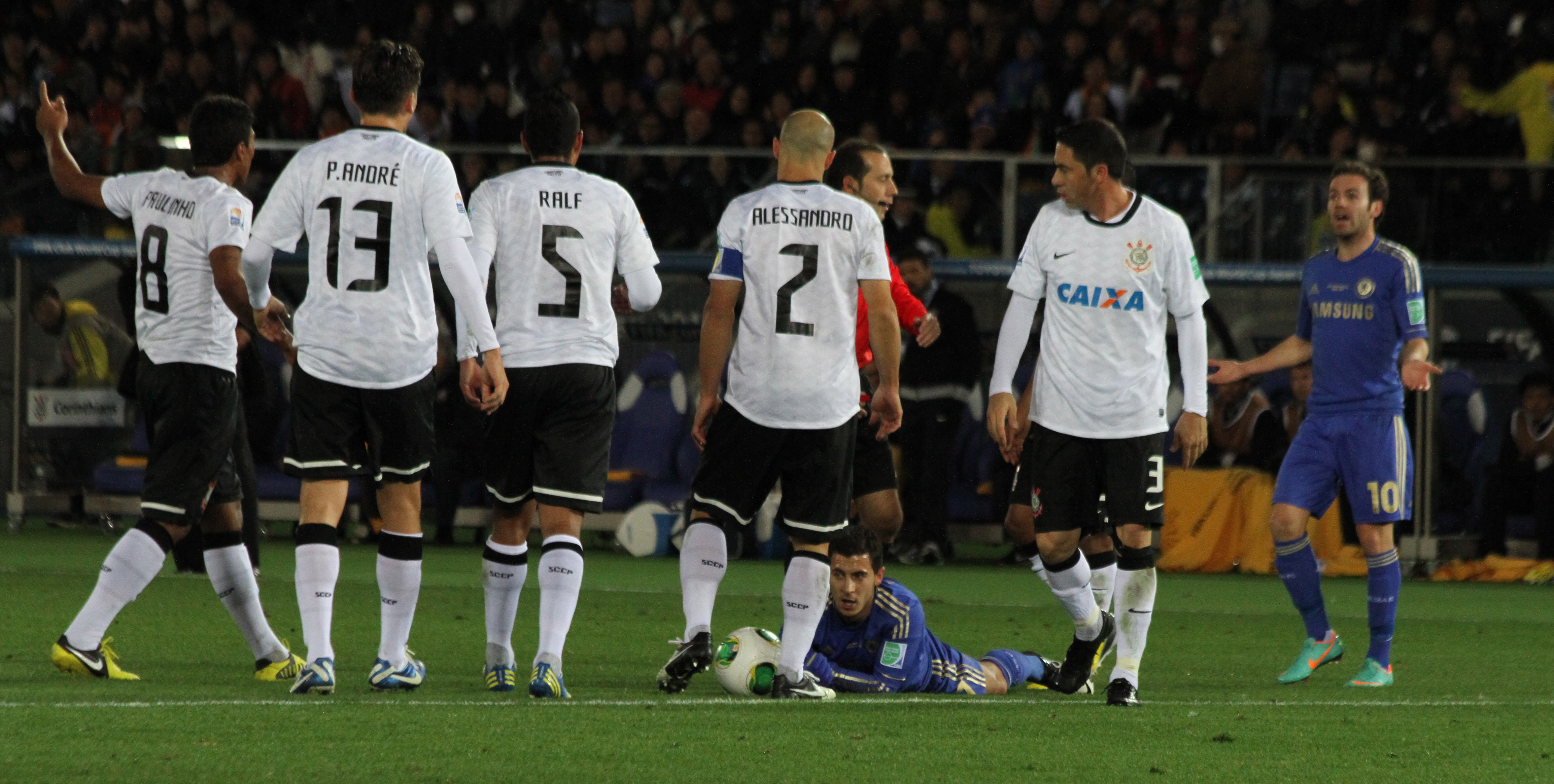 Corinthians vs Chelsea, 2012